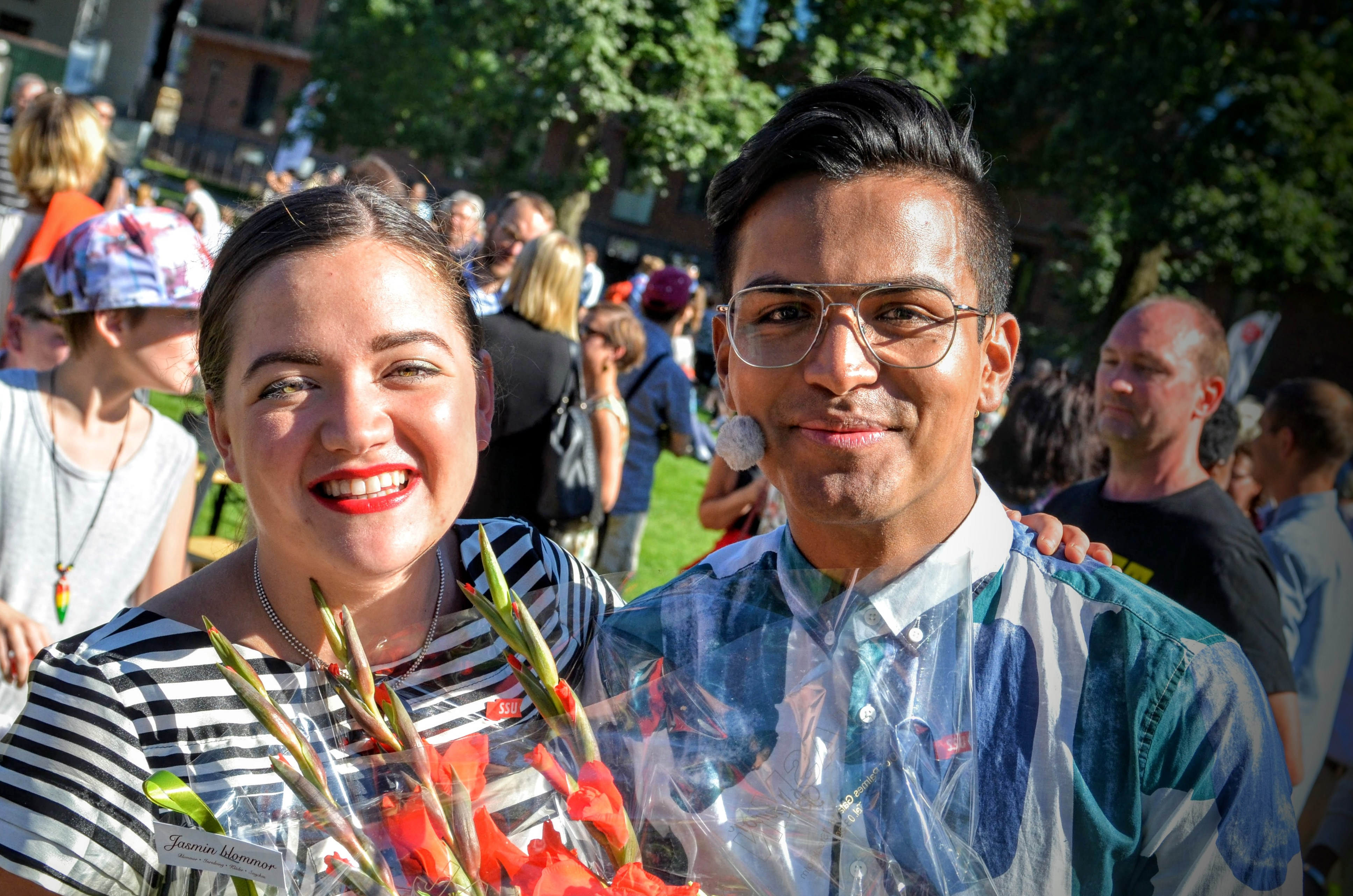 Philip Botström and Andrea Törnestam